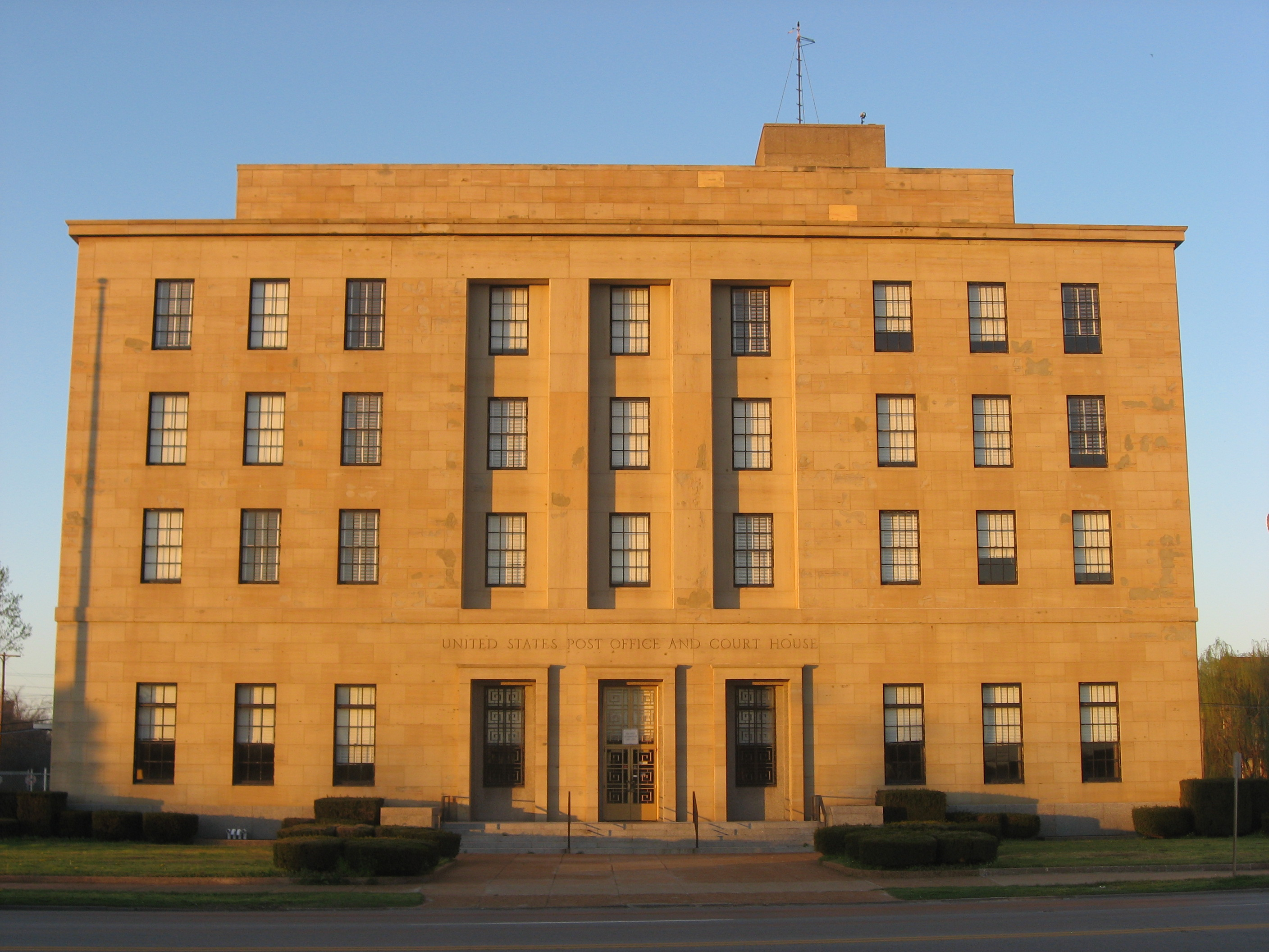 Front of the U.S. Post Office and Courthouse, located on the northern corner of the junction of Washington (U.S. Route 51) and Fifteenth Streets in Cairo, Illinois, United States. Built in 1942, it is part of the Cairo Historic District, a historic district that is listed on the National Register of Historic Places.